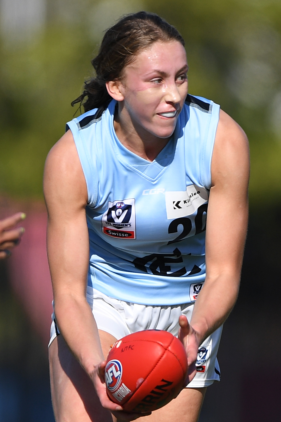 Charlotte Wilson of Carlton during the 2019 VFLW round 9 match between NT Thunder and Carlton at TIO Stadium on Saturday, 6 July 2019 in Darwin, Northern Territory.